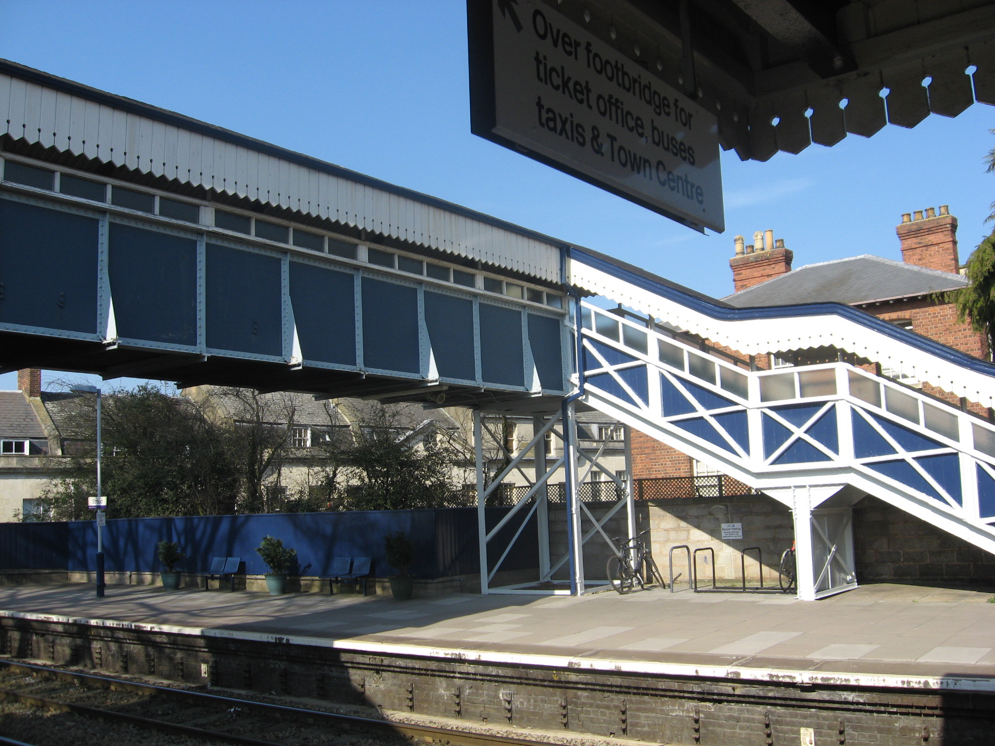 Covered footbridge over the railway line at Stroud, Gloucestershire, UK